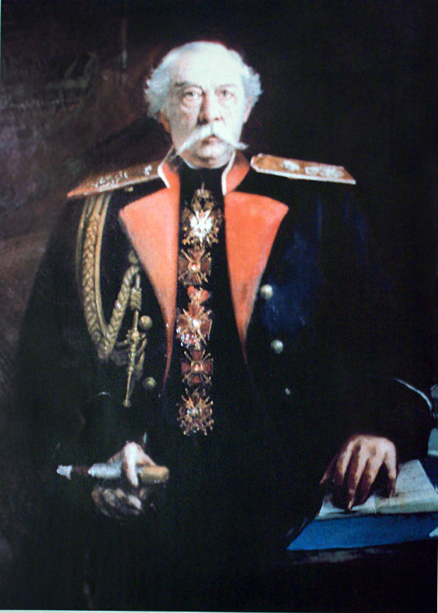 Georgian nobleman and general, prince Gregory "Grigol" Dadiani of the Principality of Megrelia